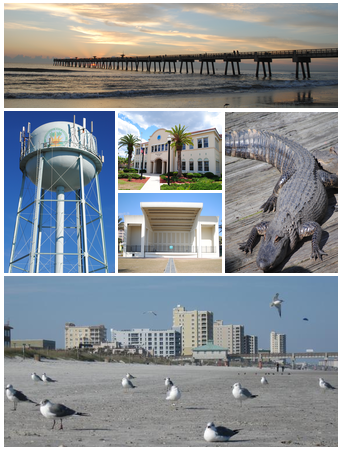 A collection of photo I took around Jacksonville Beach